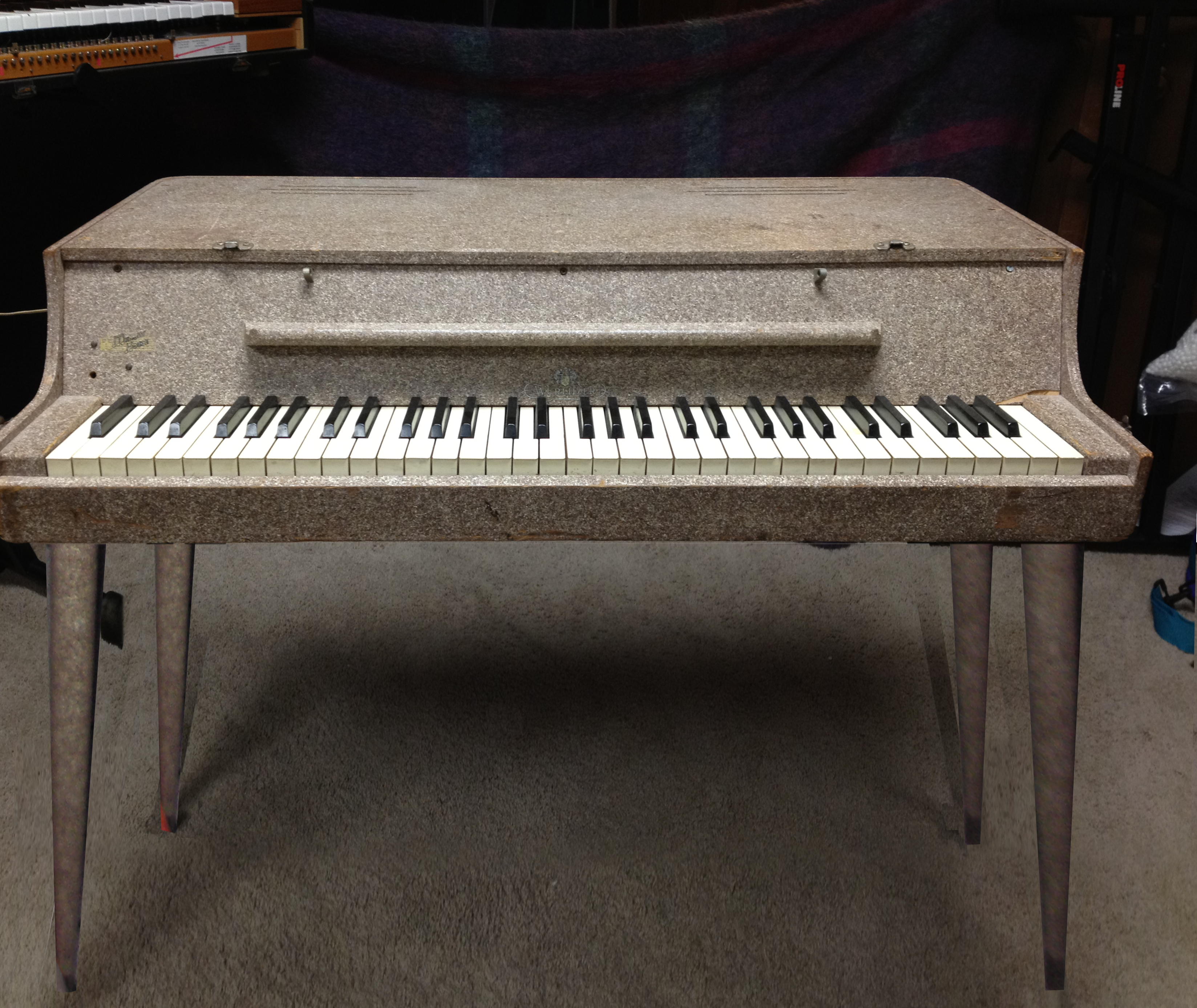 Wurlitzer Electronic Piano model 112 (year unknown) with original legs (1956, damper pedal missing)